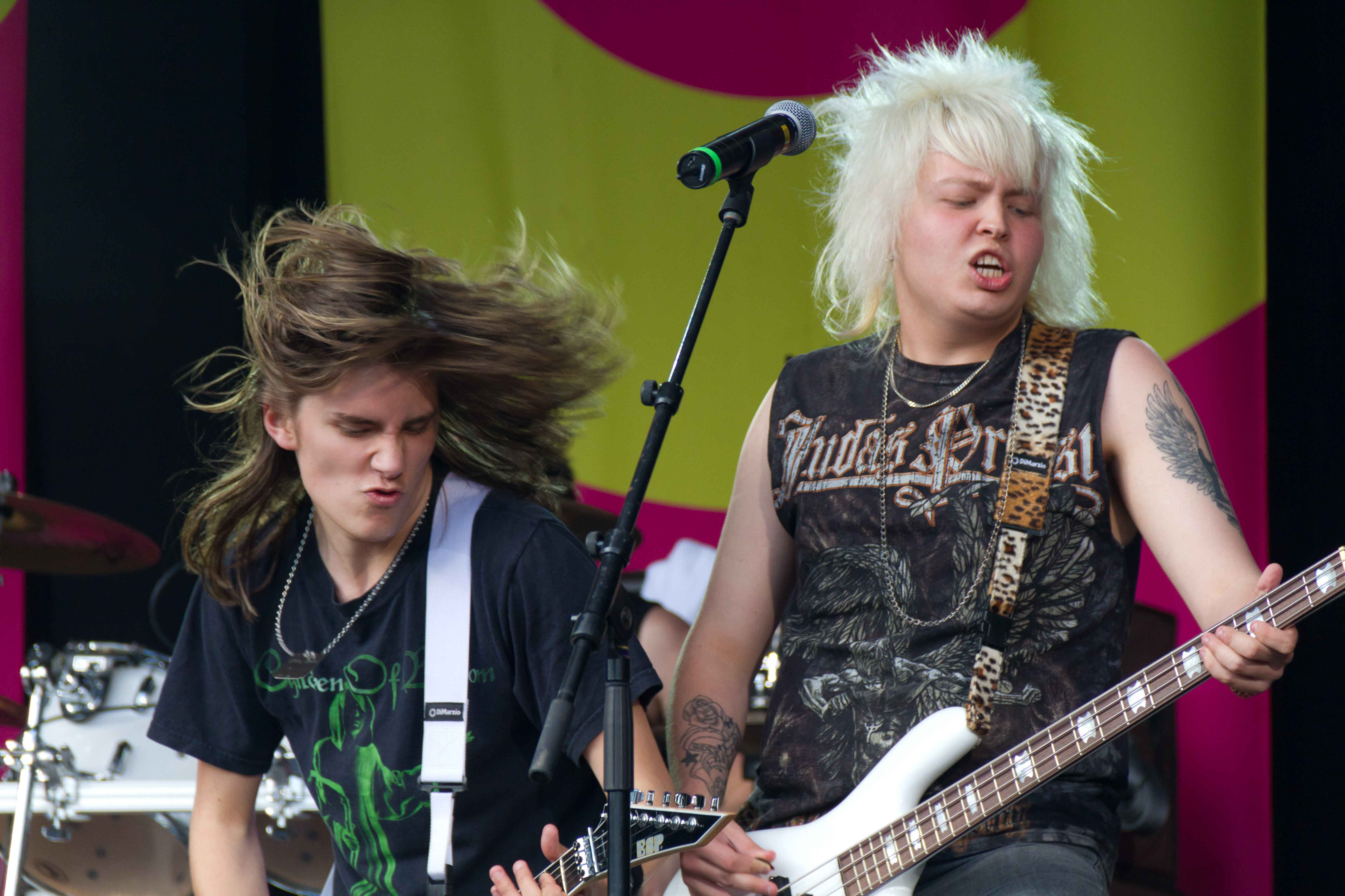 André Linman and Joel Wendlin of Sturm und Drang performing at Popkalaset 2011 in Ekenäs, Finland.